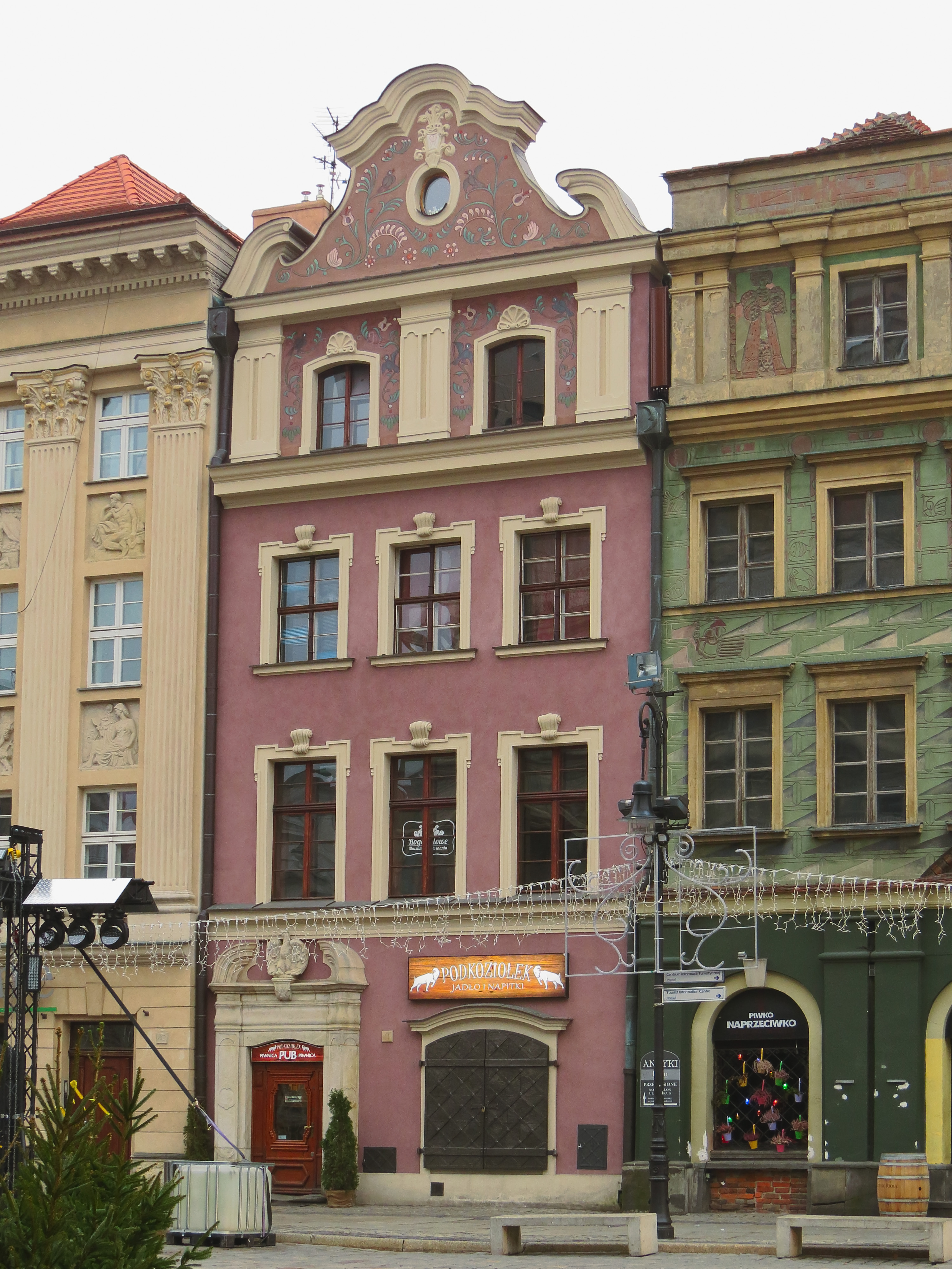 41 Old Market Square in Poznań